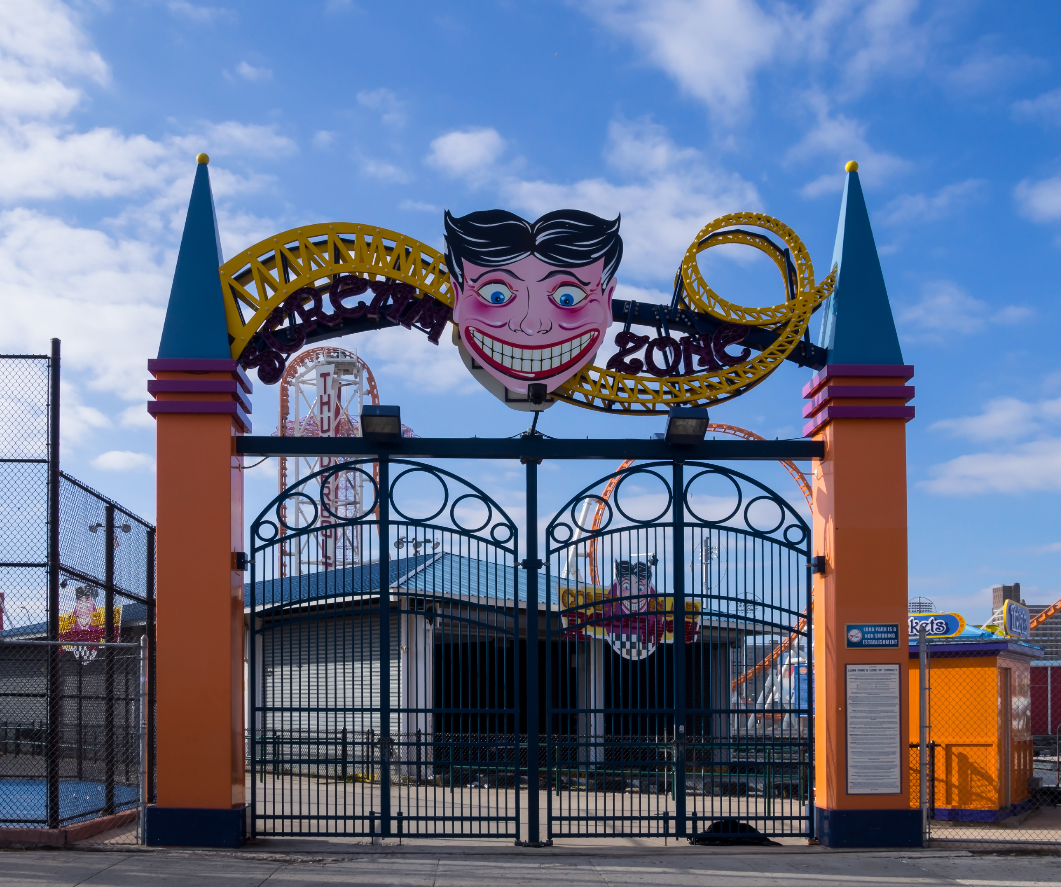 Scream Zone gate on Stillwell Ave. on Coney Island.